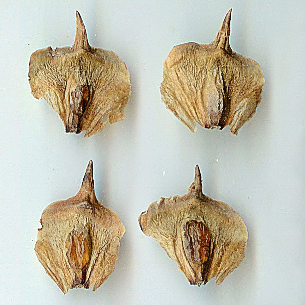 Araucaria columnaris seeds